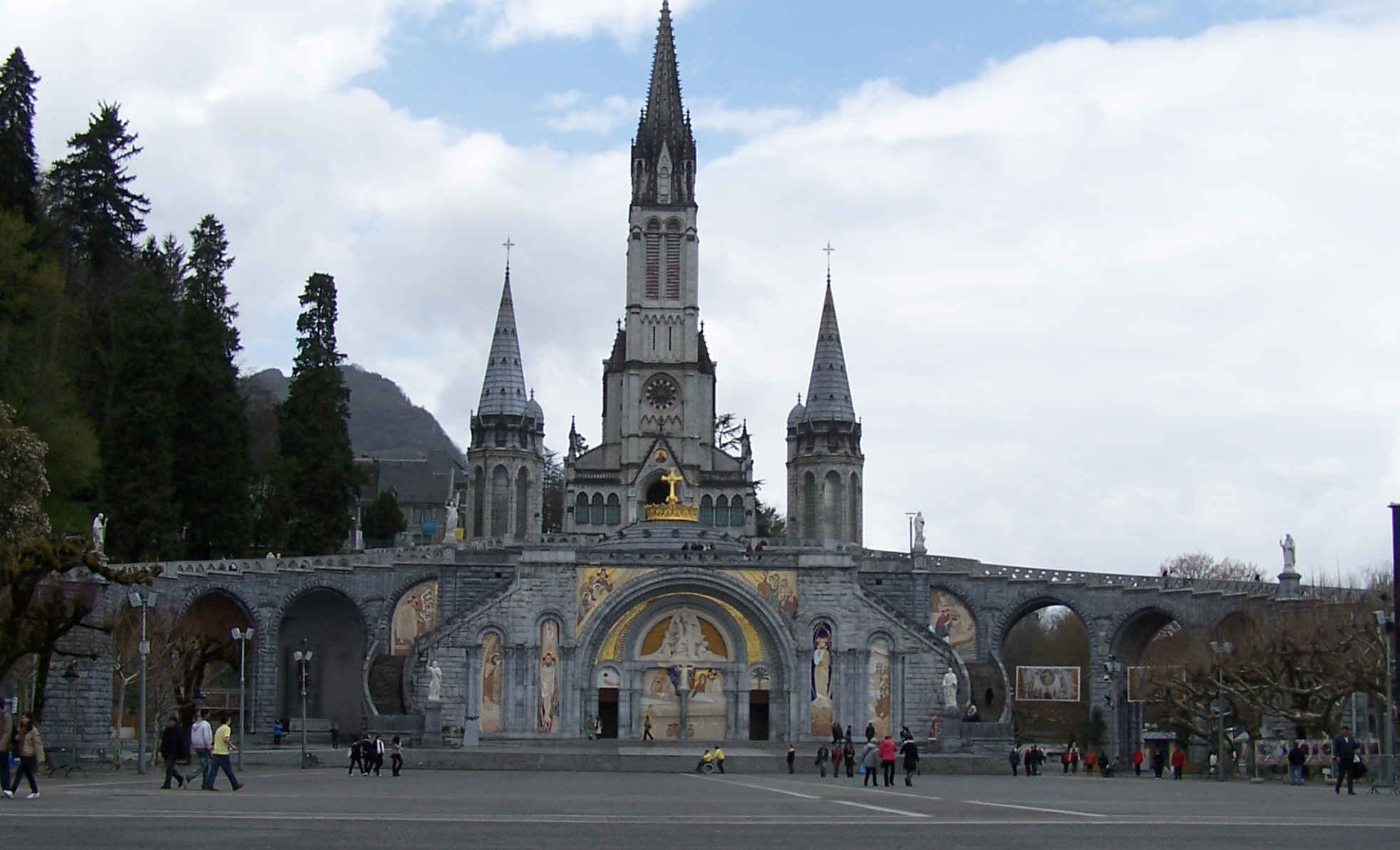 Sanctuary of Our Lady of Lourdes; a view of the exterior of the Rosary Basilica taken from near the Crown Statue. Note the recent changes to the facade of the basilica to incorporate the Luminous Mysteries. Kodak DX6490 digital camera.